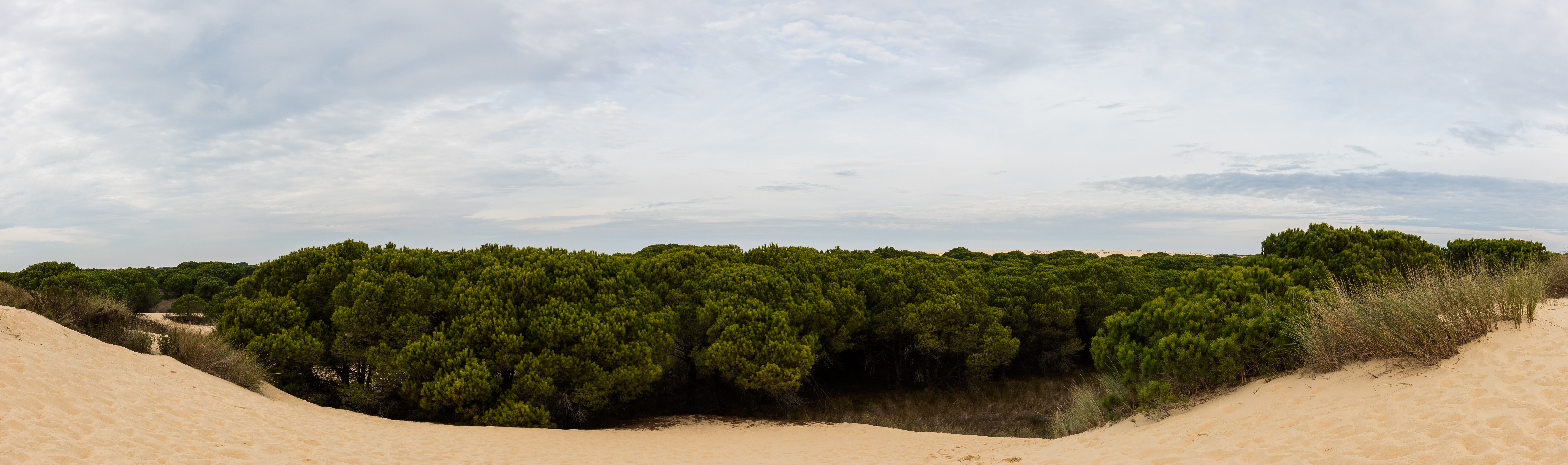 Panoramic view of Natural Park of Doñana, Huelva, Spain